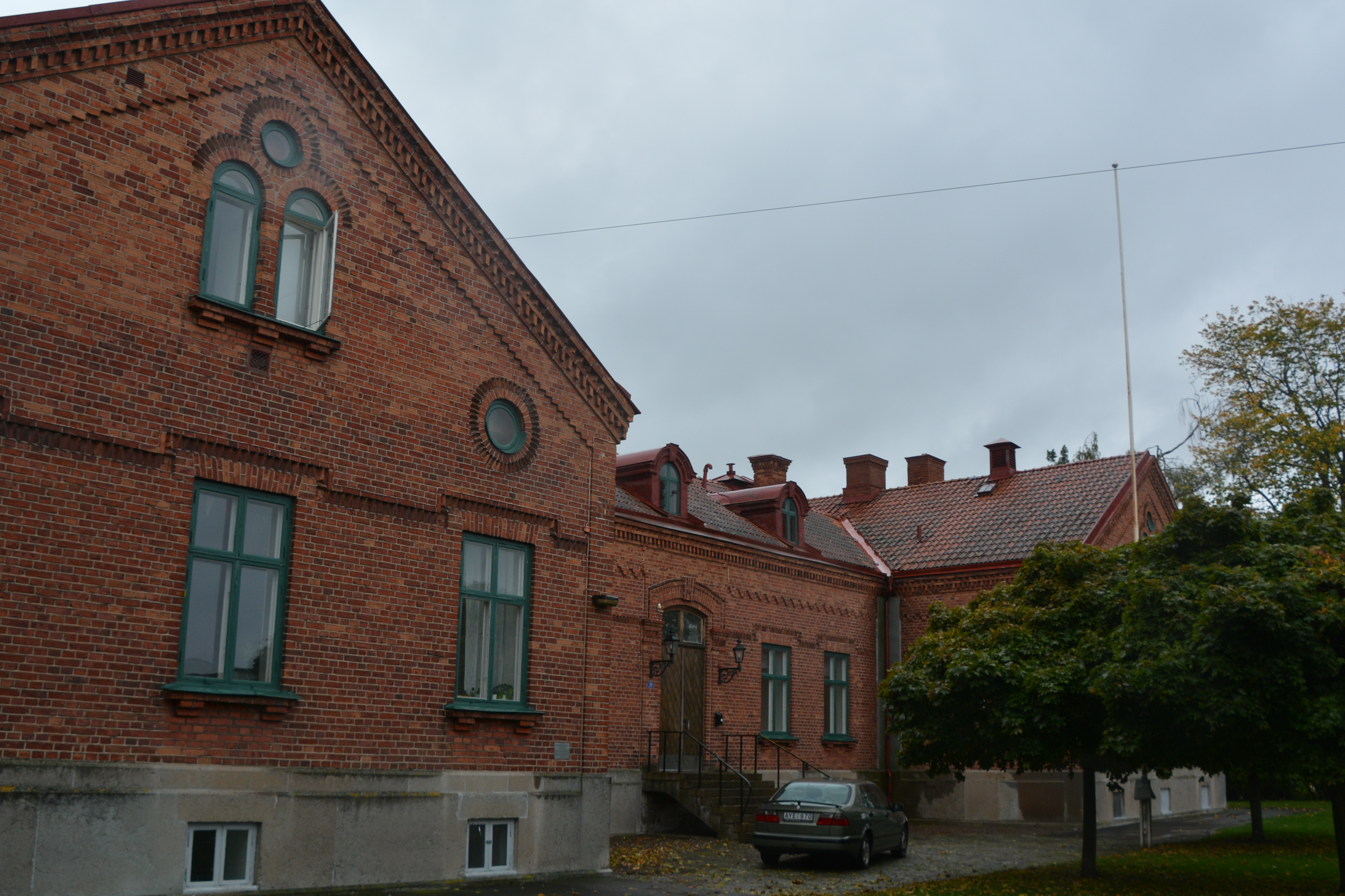 Gamla Epidemisjukhuset Jönköping